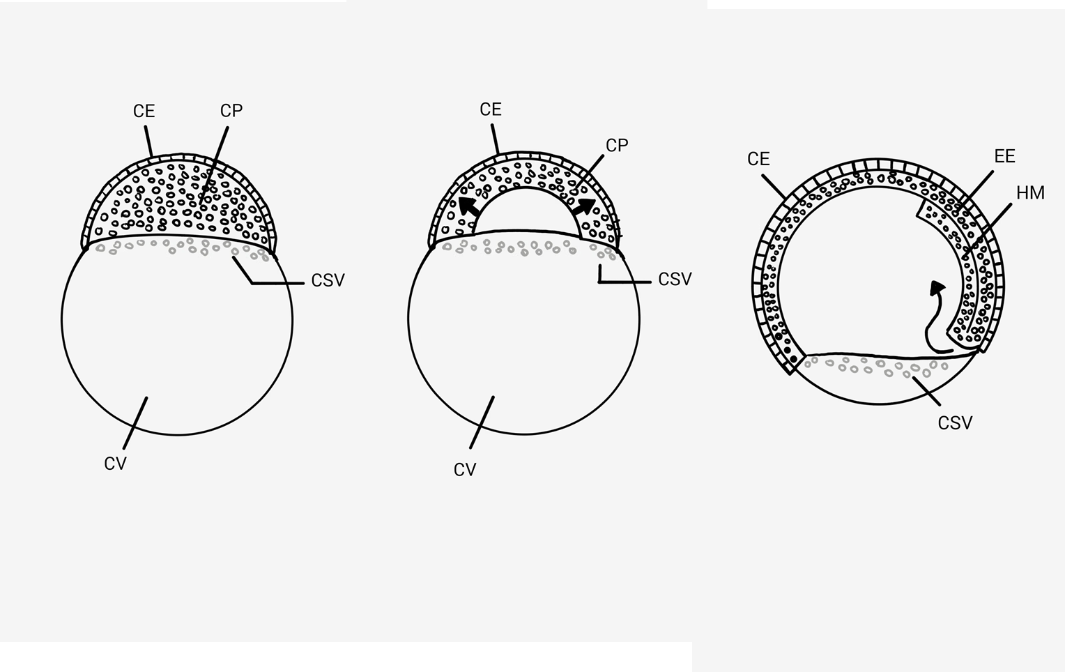 Epiboly process based on the scheme presented on the article "Zebrafish epiboly: mechanics and mechanisms." by Lepage and Bruce.